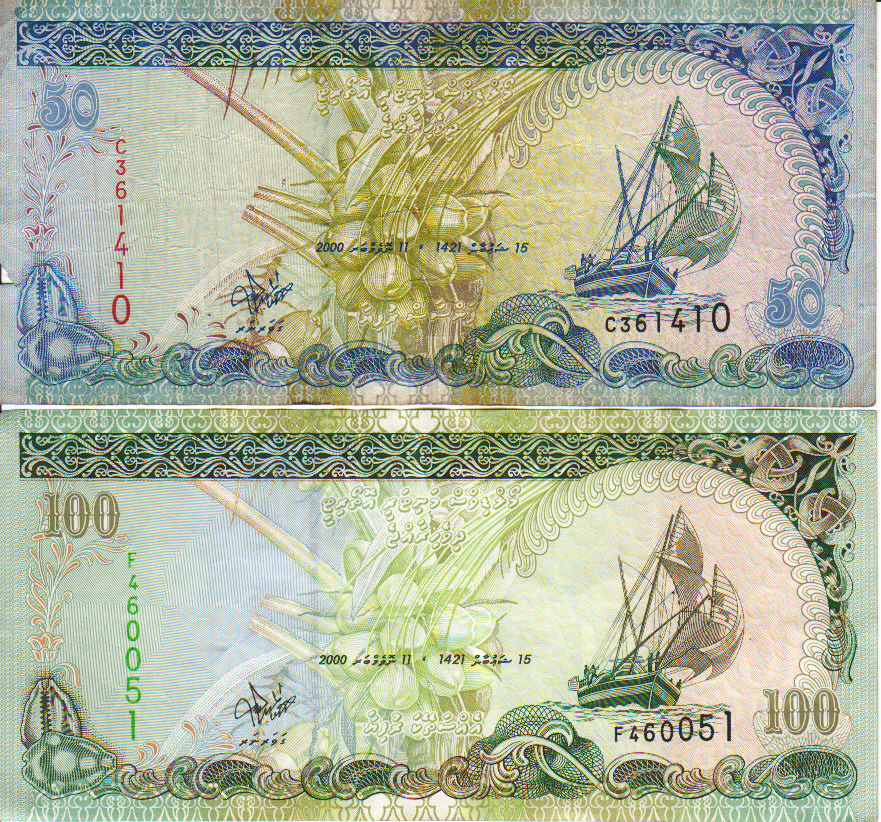 Maldive Islands, bank notes, 50 and 100, observe scan from own collection